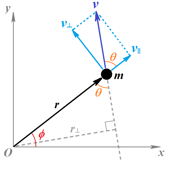 Angular velocity of a particle moving about the origin in two dimensions, decomposed into vectors parallel and perpendicular to the position vector, with construction for angular momentum